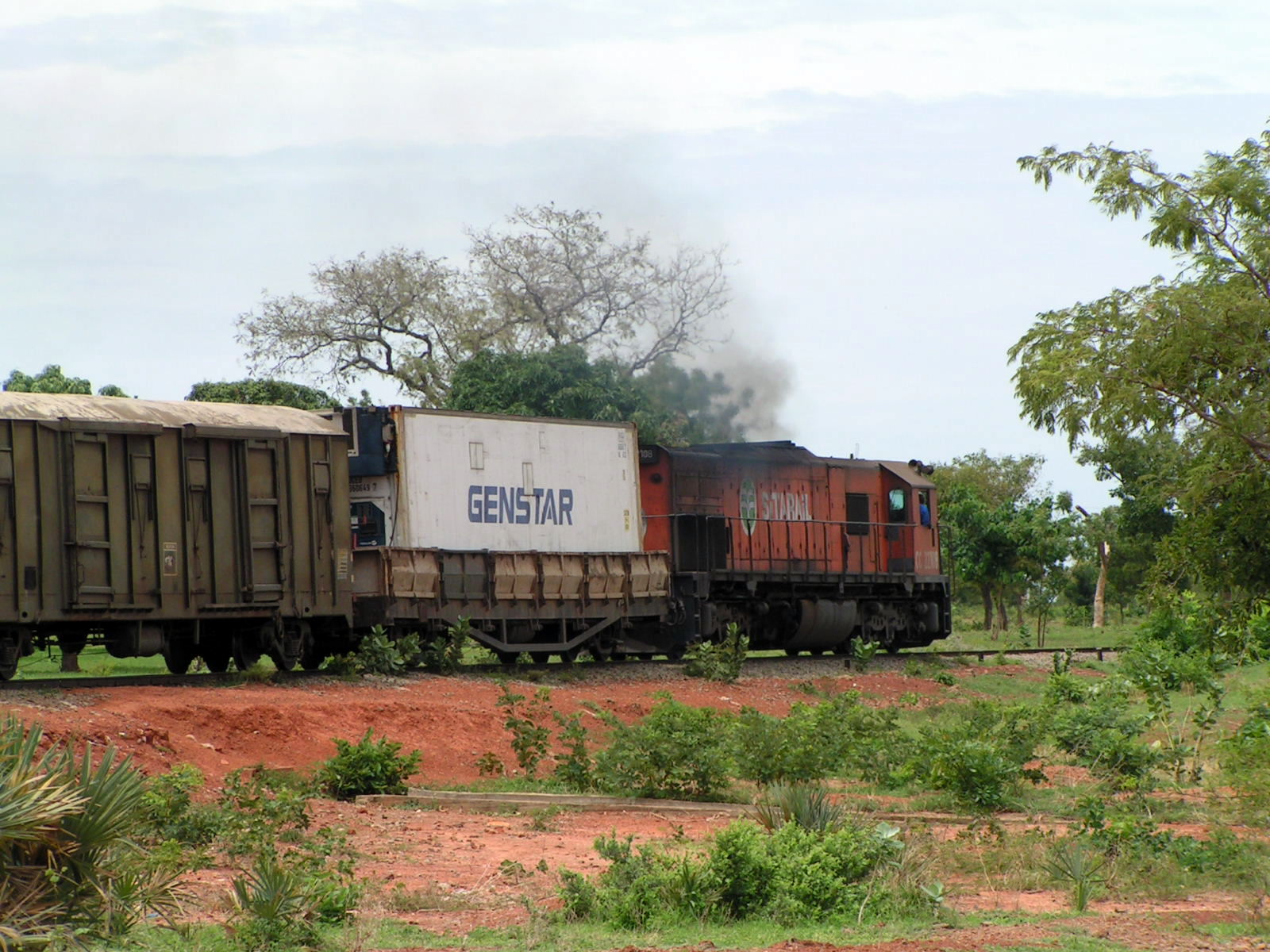 One of the two daily mixed goods trains pulling out of Bobo-Dioulasso, Burkina Faso, bound for Abidjan. Locomotive: General Motor of Canada GT22LC2 (built 1981).